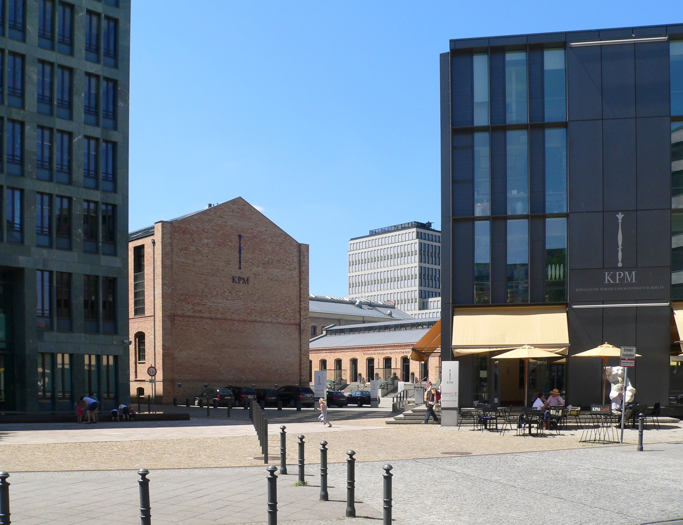 Berlin-Charlottenburg KPM (Königliche Preußische Porzellanmanufaktur at Wegelystraße